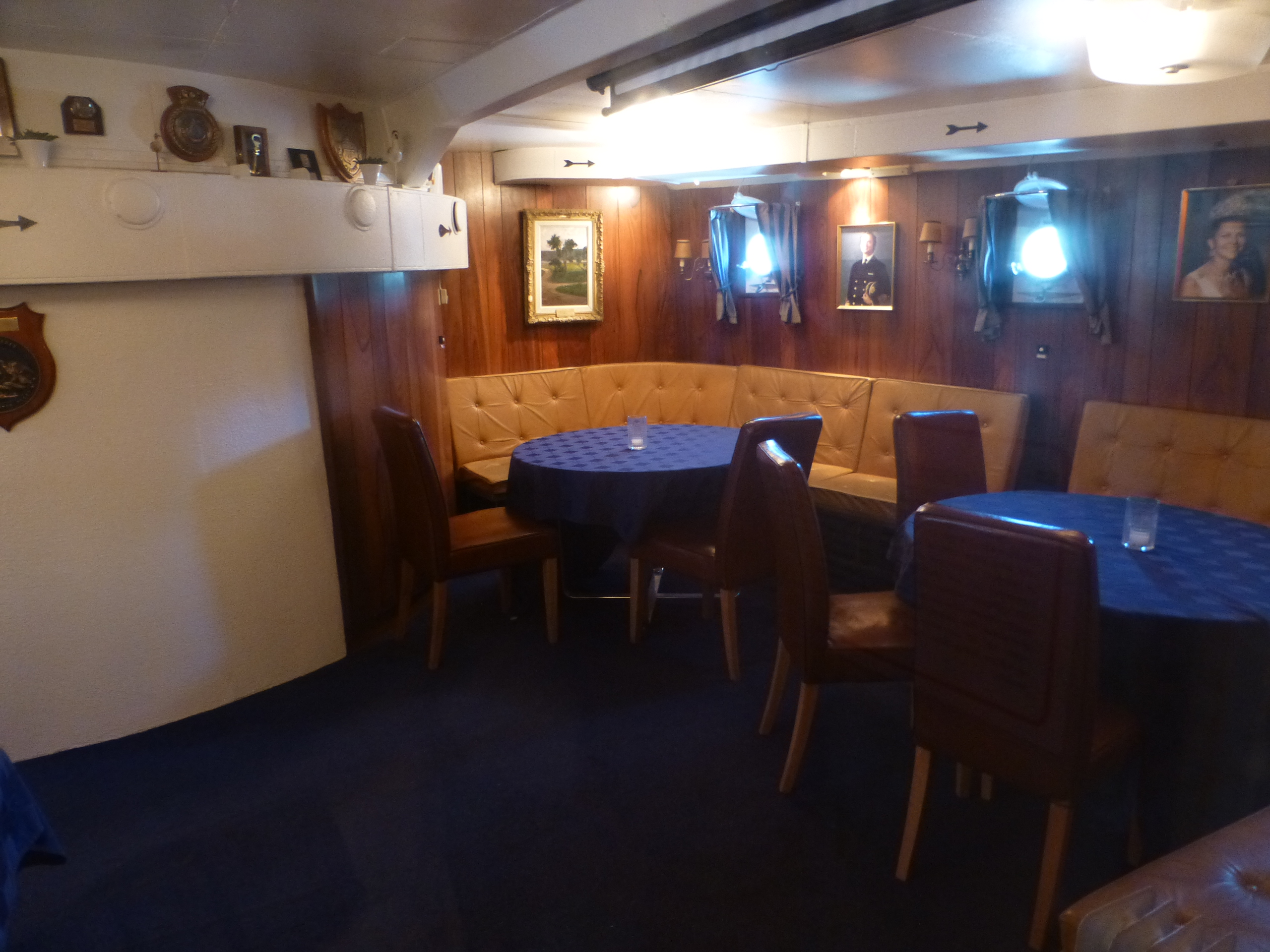 Interior of the destroyer HMS Småland from 1952 at the naval museum Maritiman in Göteborg.